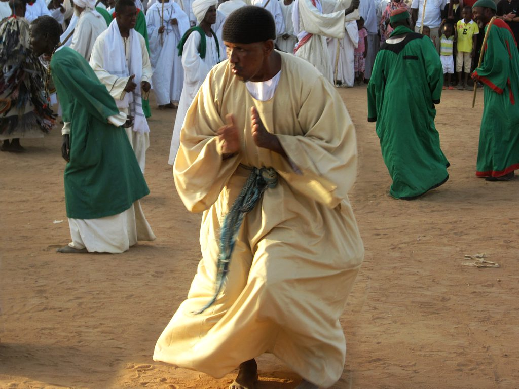 Every Friday afternoon at the Hamed el-Nil Mosque and Tomb in Omdurman, Sudan, Sufi dervishes whirl, clap, and chant their way to ecstasy.